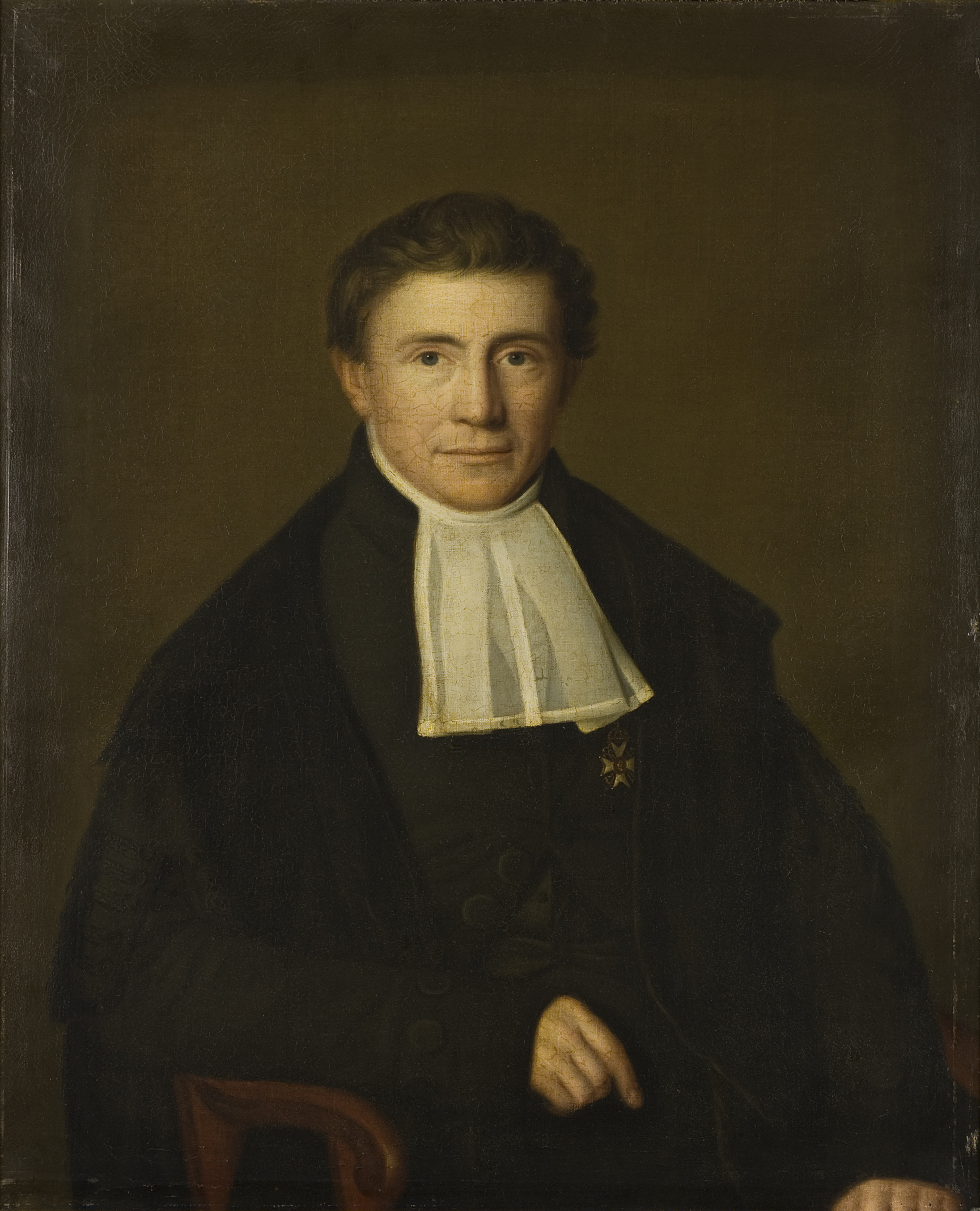 Sibrandus Stratingh